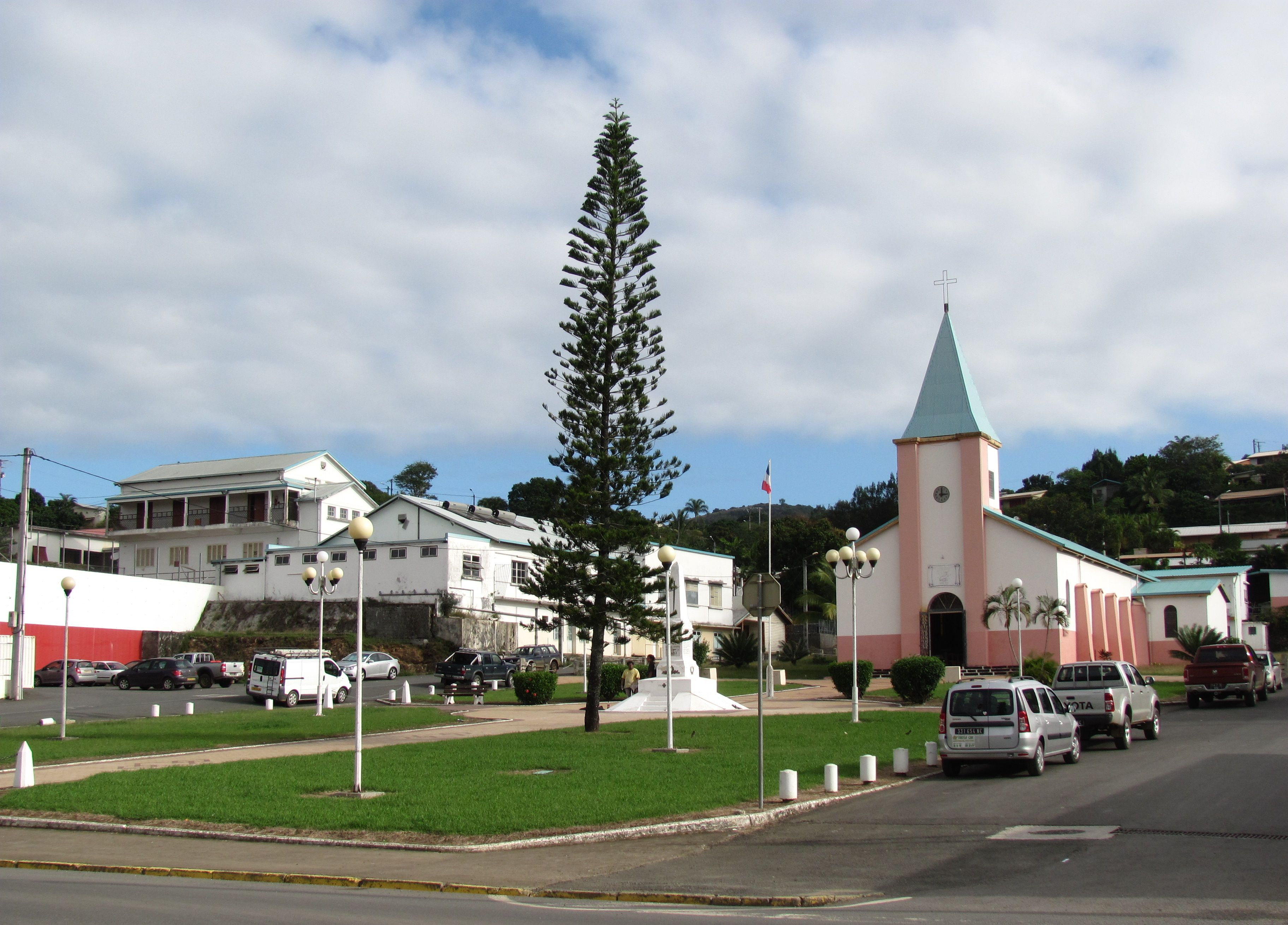 Church, Bourail, New Caledonia